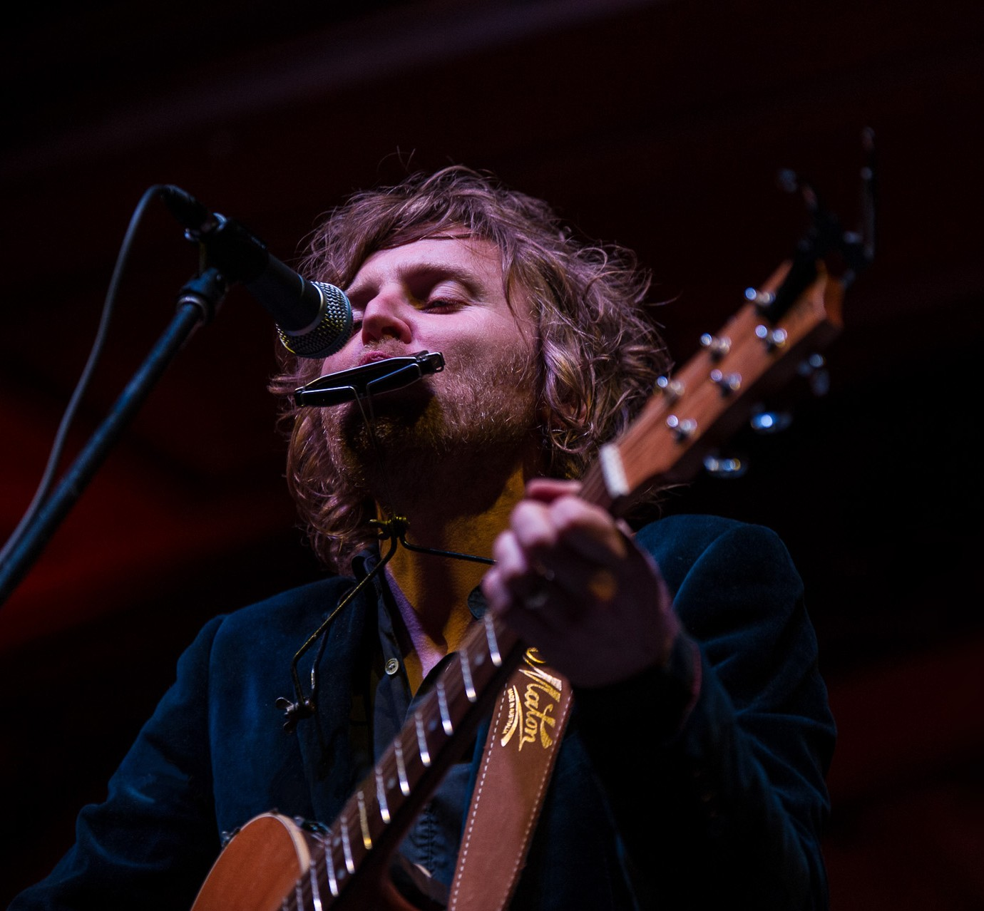 Bob Evans (pseudonym of Kevin Mitchell), an Australian singer-songwriter, is performing at The Abbey Function Centre, Canberra. He is playing a harmonica and acoustic guitar.